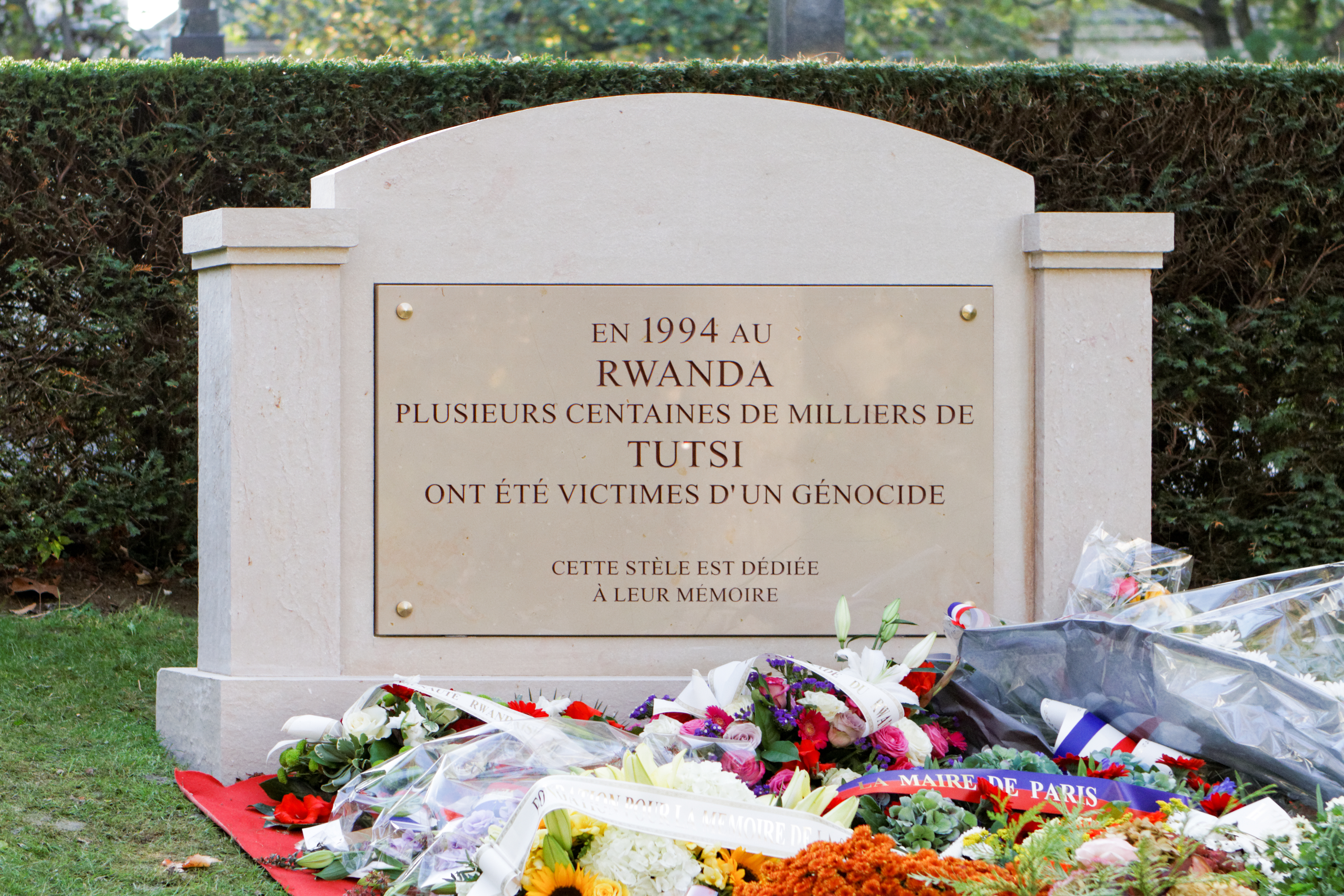 Rwandan Genocide memorial.